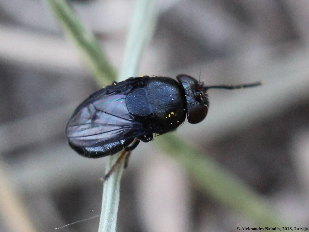 Discomyza incurva